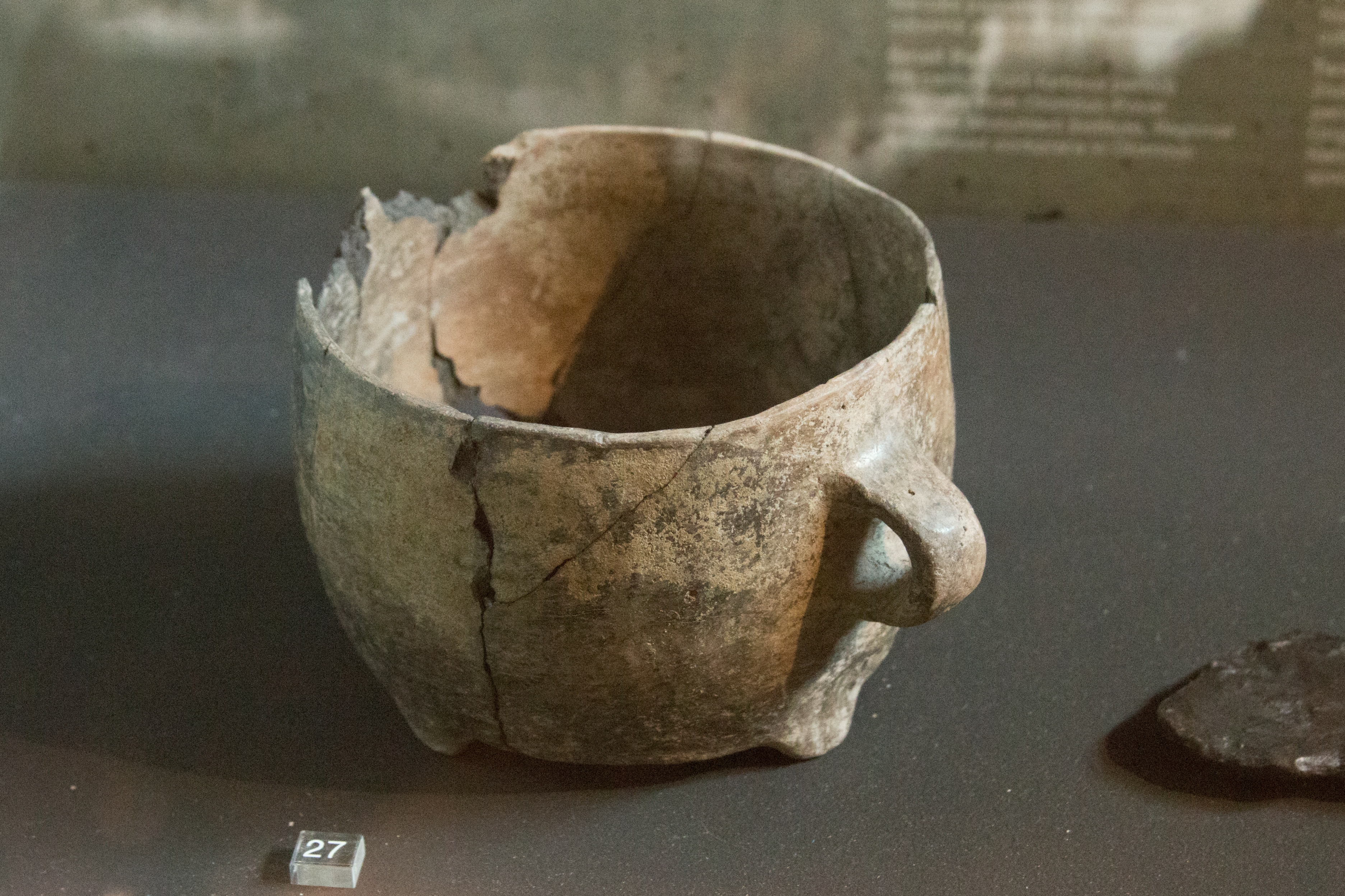 Pot, 1550-1450 BC (Earlier Bronze Age, Věteřov culture). Originaly from Olomouc, Saint Wenceslas Hill. National Monument institute in Olomouc. Collections of Archbishopric Museum in Olomouc.